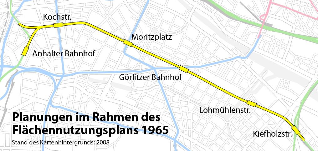 Situation of the former planned Ost-West-S-Bahn in the current Berlin transportation network. Plannings as of 1965 This map of Berlin was created from OpenStreetMap project data, collected by the community.This map may be incomplete, and may contain errors. Don't rely solely on it for navigation.